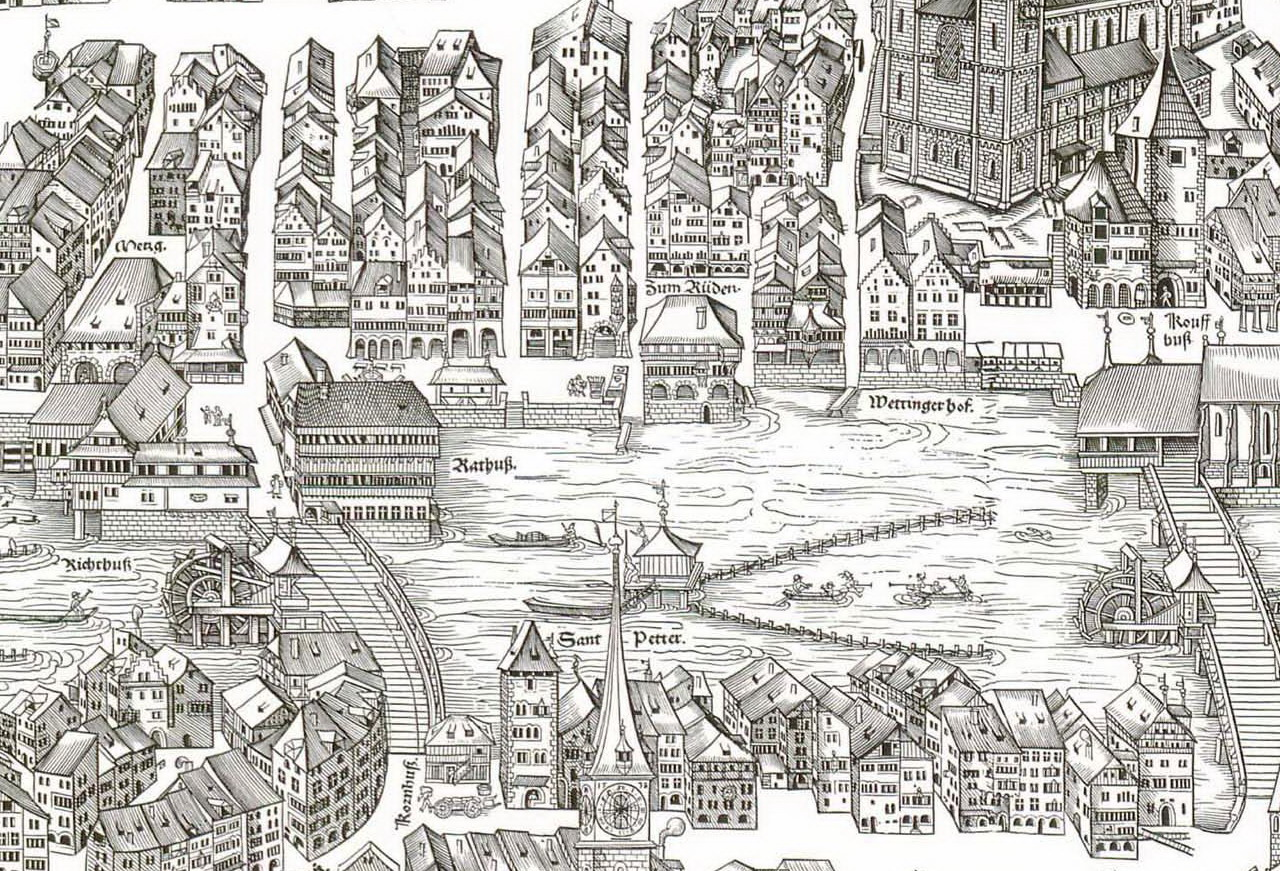 View of the city of Zürich on a xylography by Josua Murer, 1576. The original headline can be roughly translated into "The ancient widely known city Zürich's design and positioning, as its essense/character is projected and build at this time by Josen Murer, and printed by Christoffel Froschauer in 1576 in honour of the fatherland."